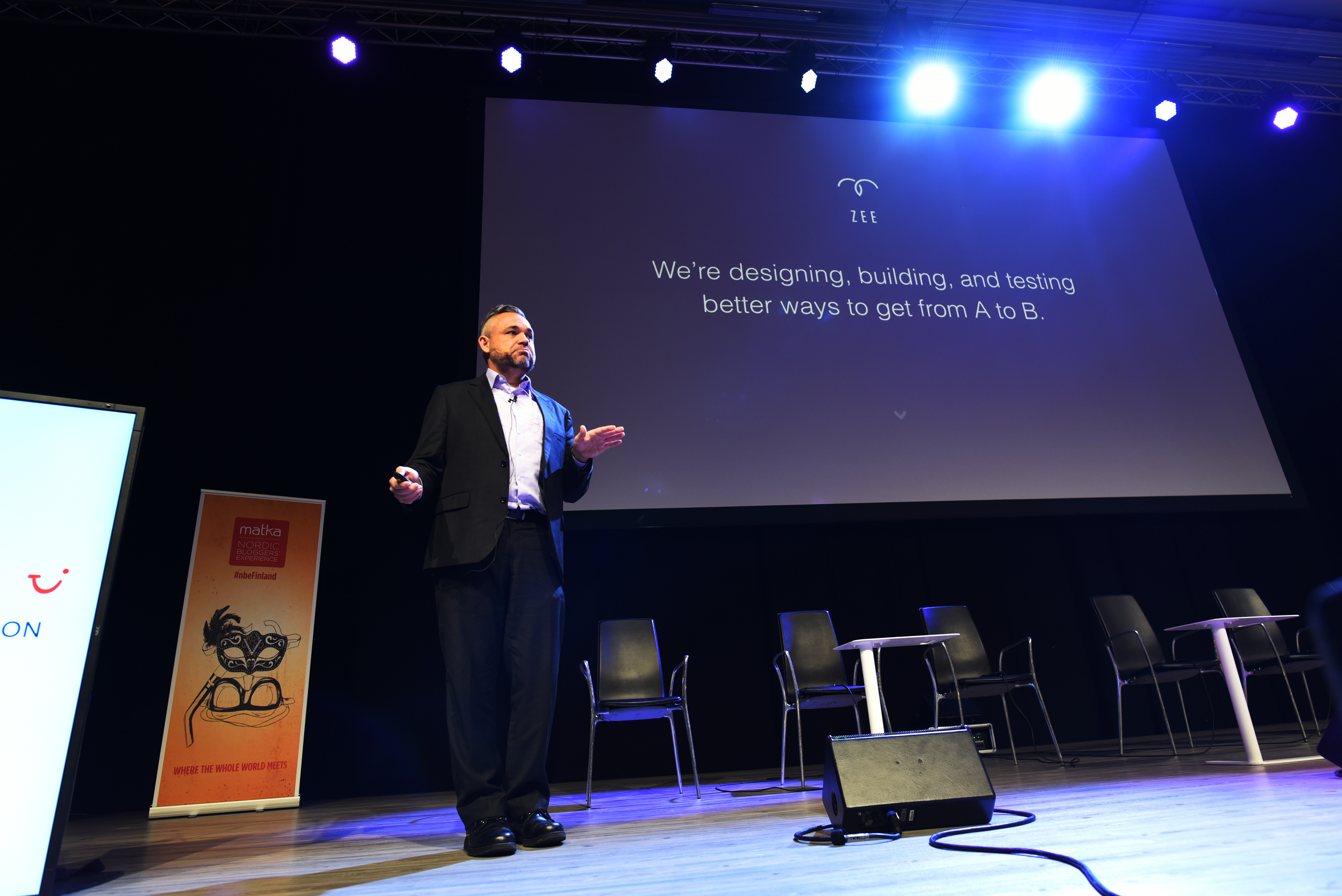 Evo Terra delivering the Keynote presentation at NBE (Nordic Blogger's Experience) 2017 in Helsinki, Finland. Part of Matka.